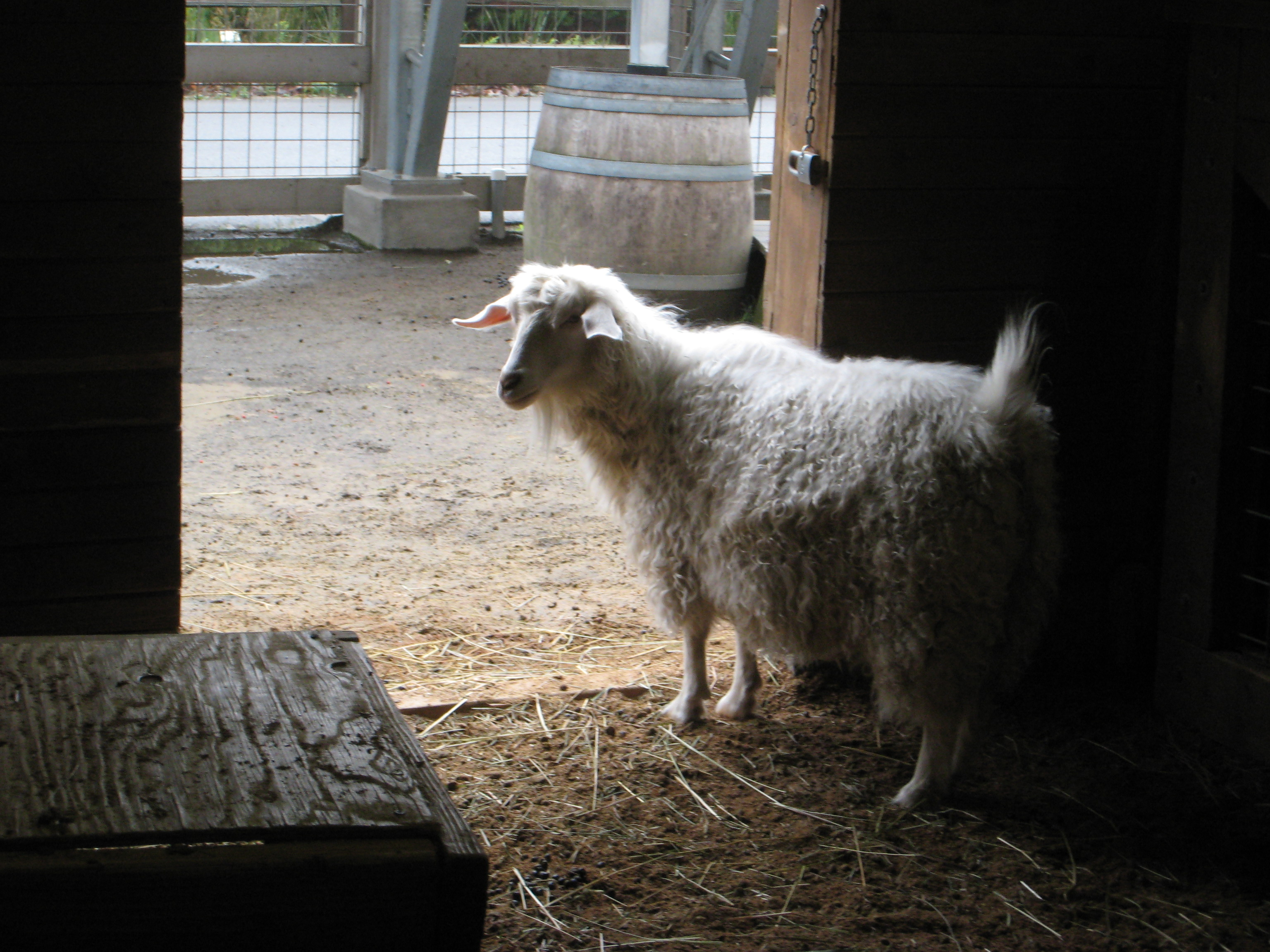 A Pygora goat at the Oregon Zoo in Portland.